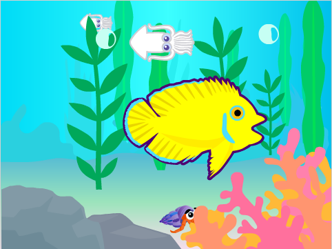 The Scratch World of Why!? Programming(NHK's TV program) - "Sea world"